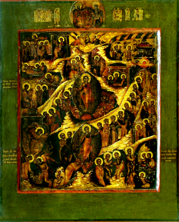 XVII century Resurrection of Jesus orthodox icon in Azerbaijan National Art Museum